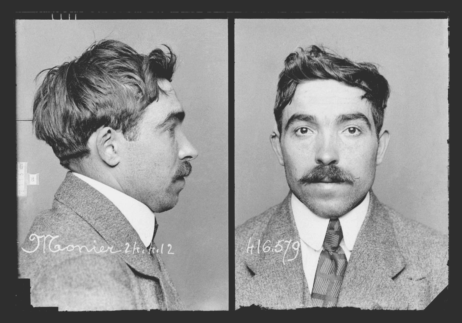 Étienne Monier (1889 - 1913), anarchist and criminal, member of the Bande à Bonnot (Bonnot Gang), executed by guillotine.